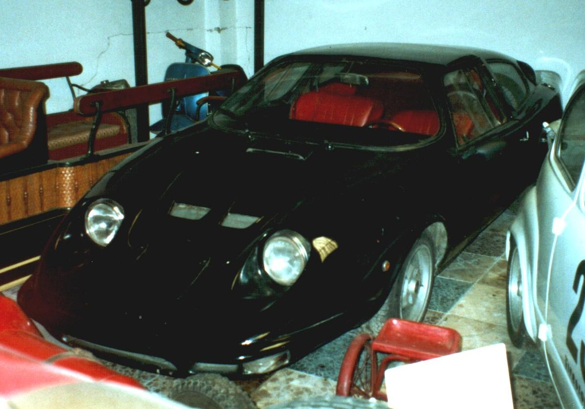 ARH 1971 (Country of origin: Spain)